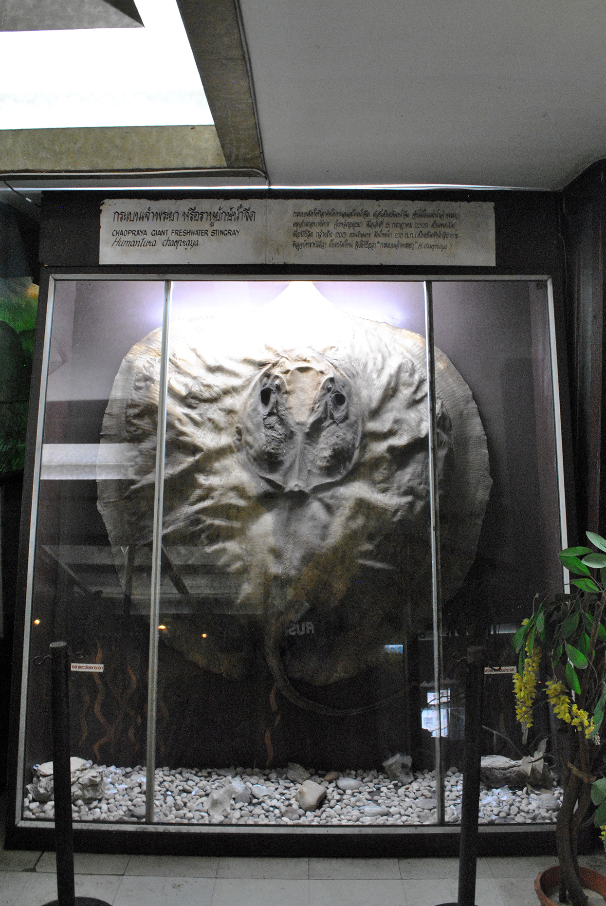 Giant freshwater stingray (Himantura chaophraya) in Pata Zoo, Bangkok